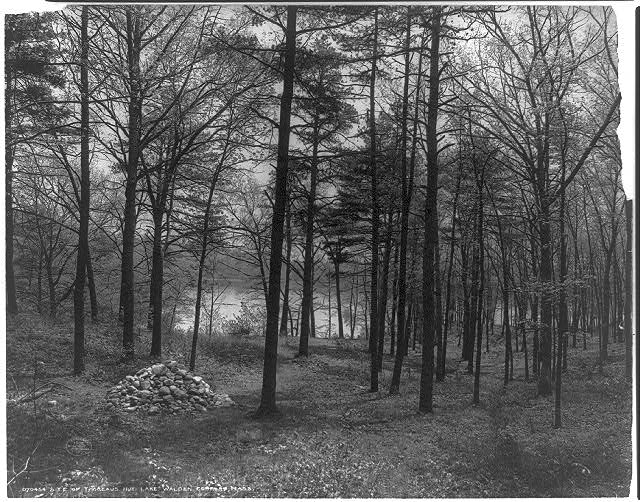 The site of Henry David Thoreau's cabin marked by a pile of rocks.